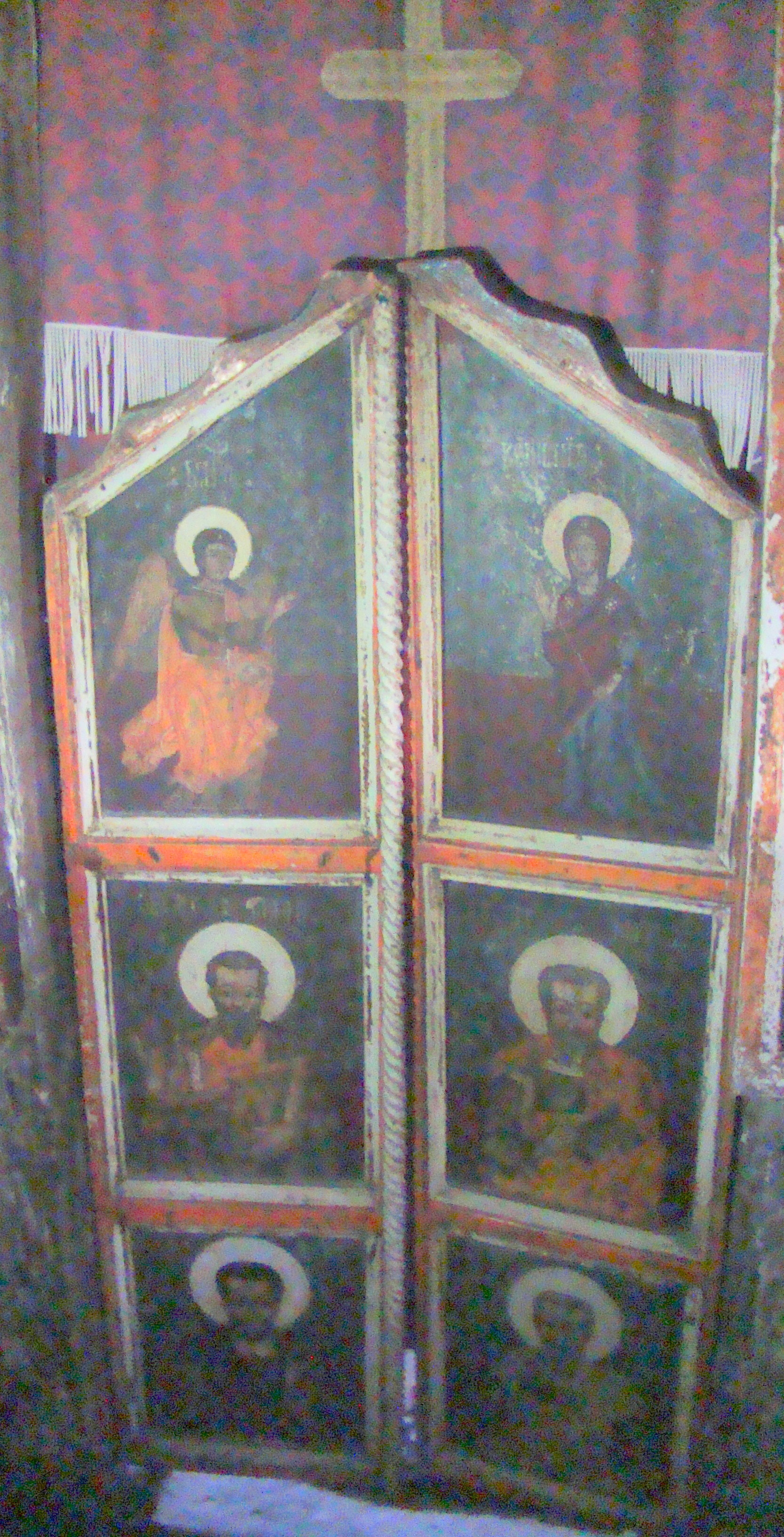 Wooden church in Petea, Mureş county, Romania